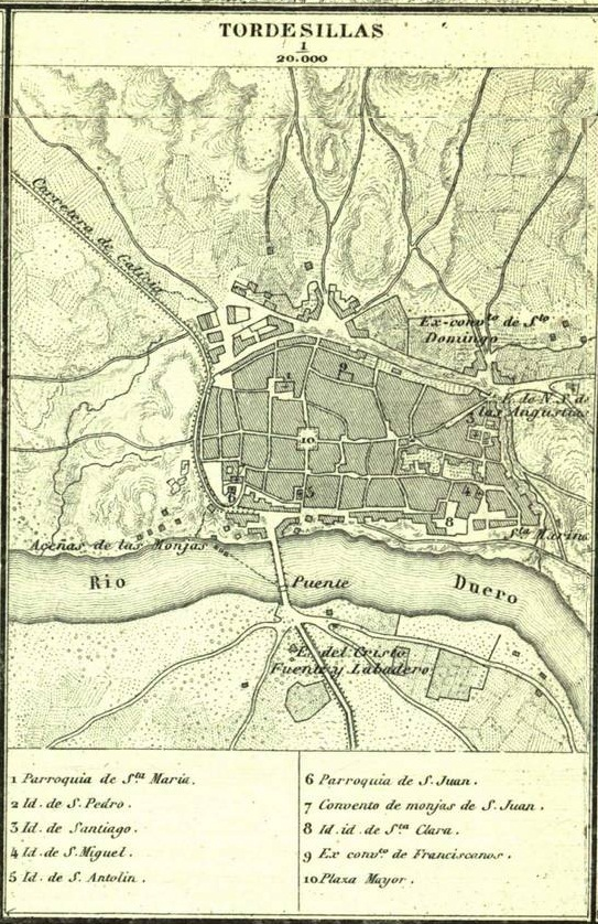 Map of Tordesillas assembled of several pieces of the 1852 general map of the province of Valladolid by Francisco Coello